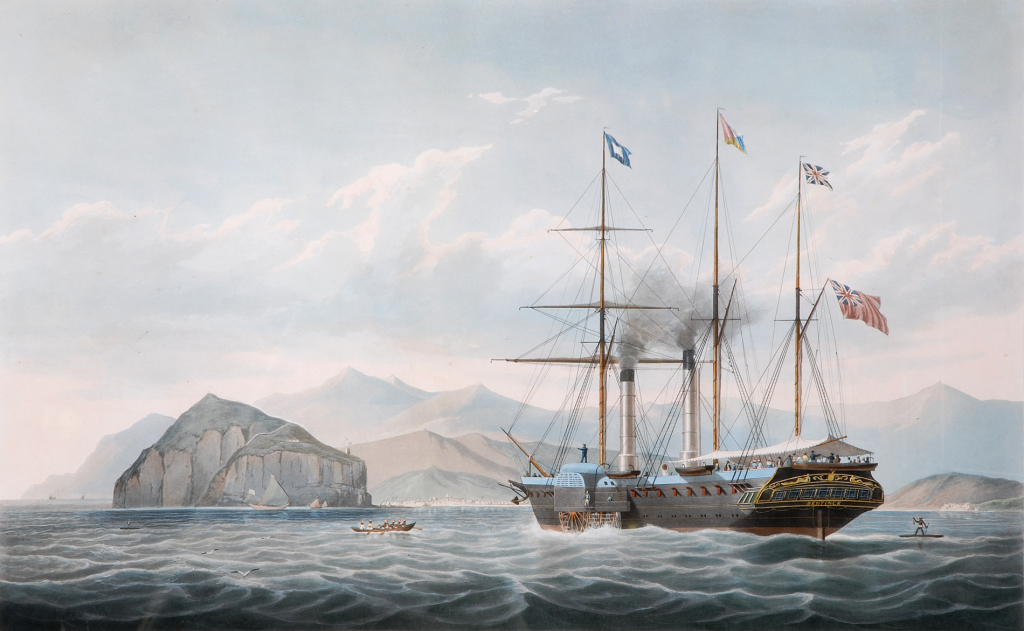 The P&O steamship Bentinck passing Aden on her first voyage to India (1844)label QS:Len,"The P&O steamship Bentinck passing Aden on her first voyage to India (1844)" label QS:Lfr,"Le Bentinck (navire à vapeur de la Peninsular and Oriental) au large d'Aden en route pour son premier voyage aux Indes (1844)"